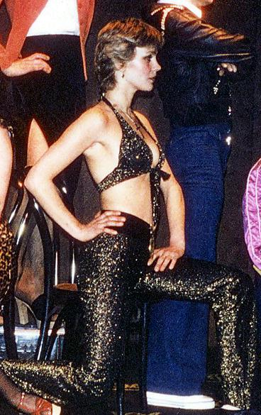 Ulla Andersson Jones as "Betty-Sue" in Wild Side Story, as released by image creator Lars Jacob ProdPlace: Alexandra's, Biblioteksgatan 5, Stockholm, Sweden